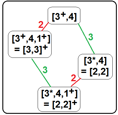 Coxeter notation examples